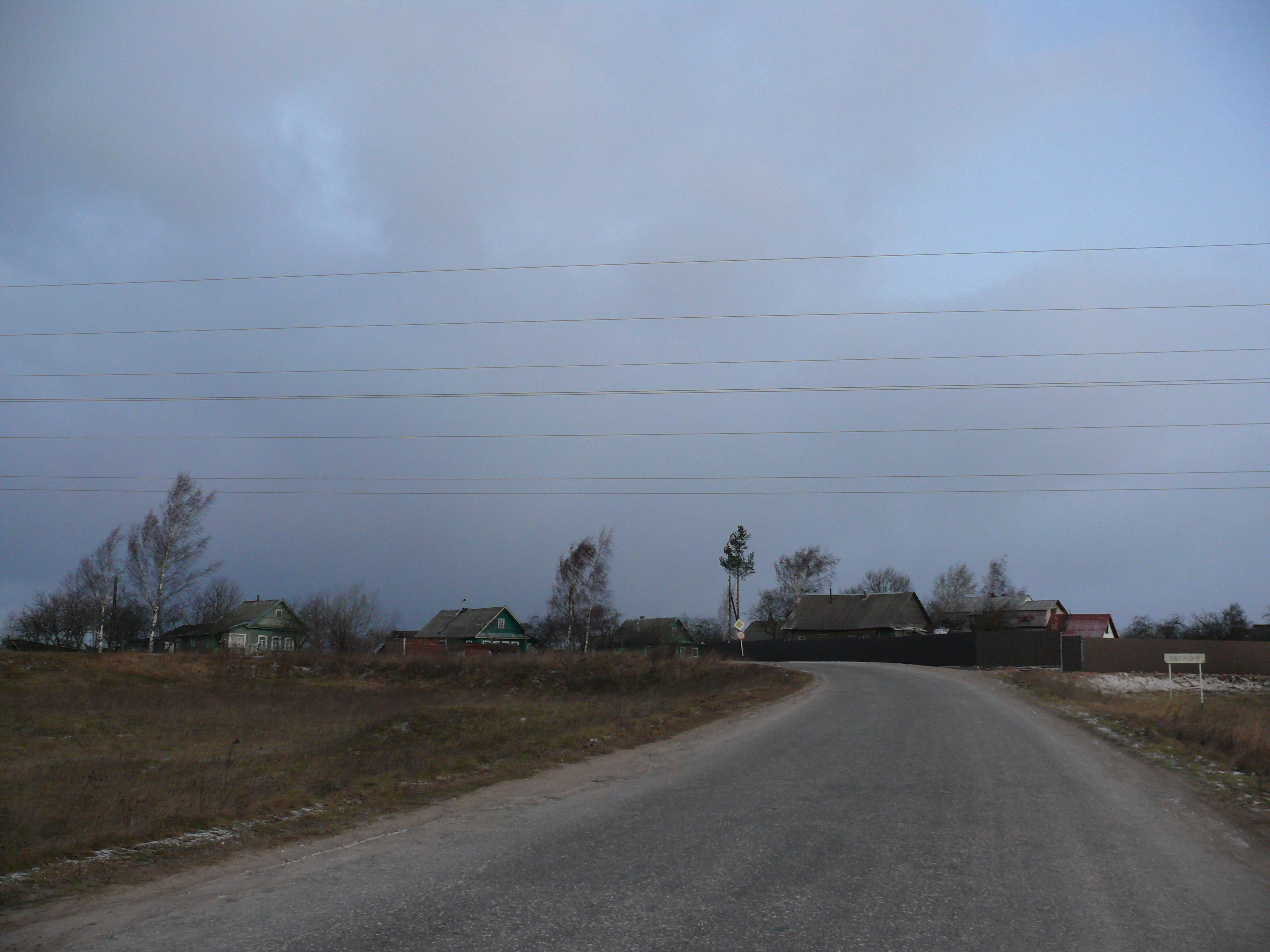 Ushersko village, Novgorodsky district, Novgorod oblast, Russia